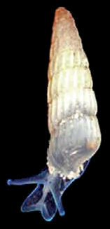 Photo of a live Turbonilla acutissima.